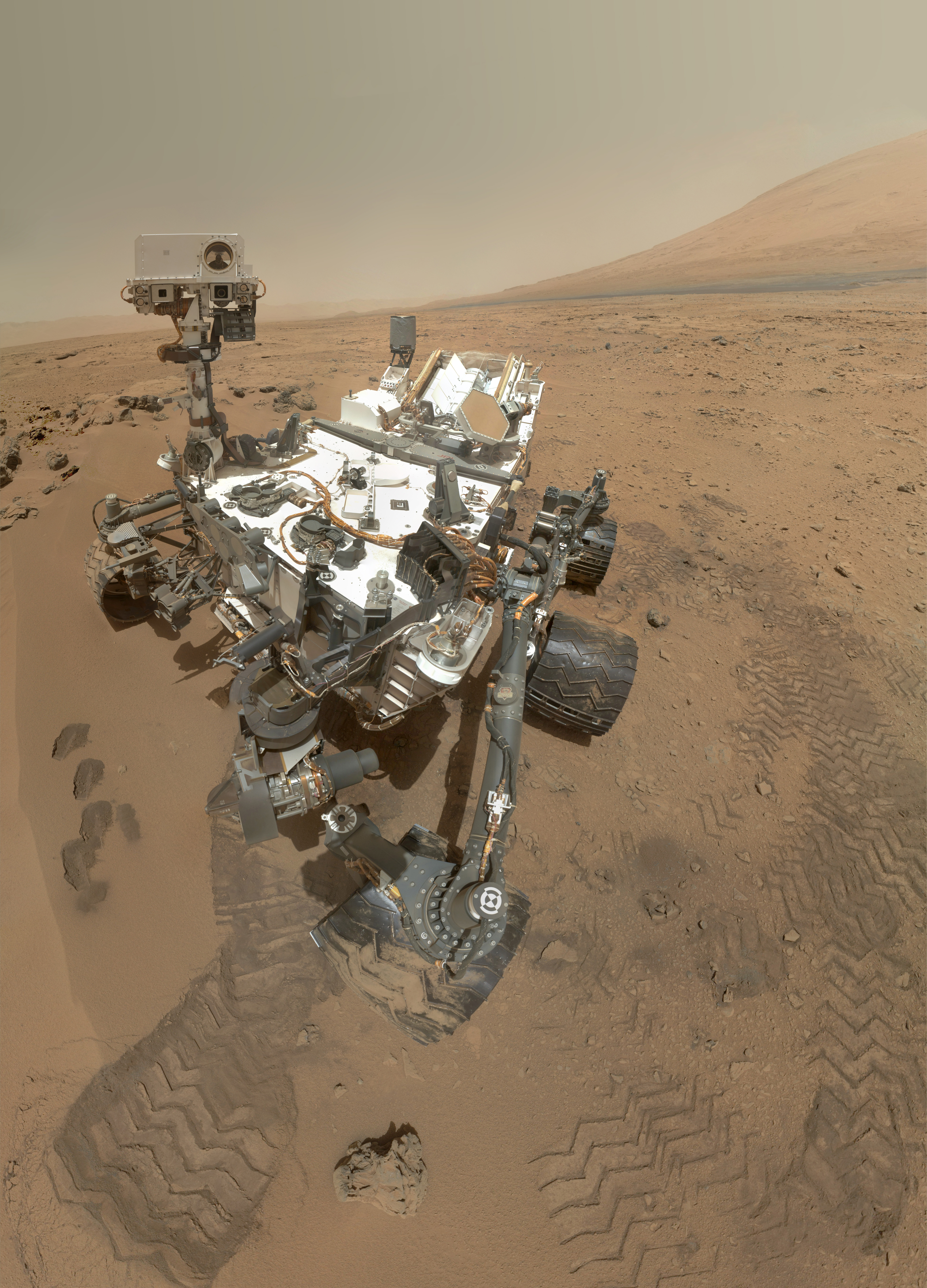 On Sol 84 (Oct. 31, 2012), NASA's Curiosity rover used the Mars Hand Lens Imager (MAHLI) to capture this set of 55 high-resolution images, which were stitched together to create this full-color self-portrait. The mosaic shows the rover at "Rocknest," the spot in Gale Crater where the mission's first scoop sampling took place. Four scoop scars can be seen in the regolith in front of the rover. The base of Gale Crater's 3-mile-high (5-kilometer) sedimentary mountain, Mount Sharp, rises on the right side of the frame. Mountains in the background to the left are the northern wall of Gale Crater. The Martian landscape appears inverted within the round, reflective ChemCam instrument at the top of the rover's mast. Self-portraits like this one document the state of the rover and allow mission engineers to track changes over time, such as dust accumulation and wheel wear. Due to its location on the end of the robotic arm, only MAHLI (among the rover's 17 cameras) is able to image some parts of the craft, including the port-side wheels.